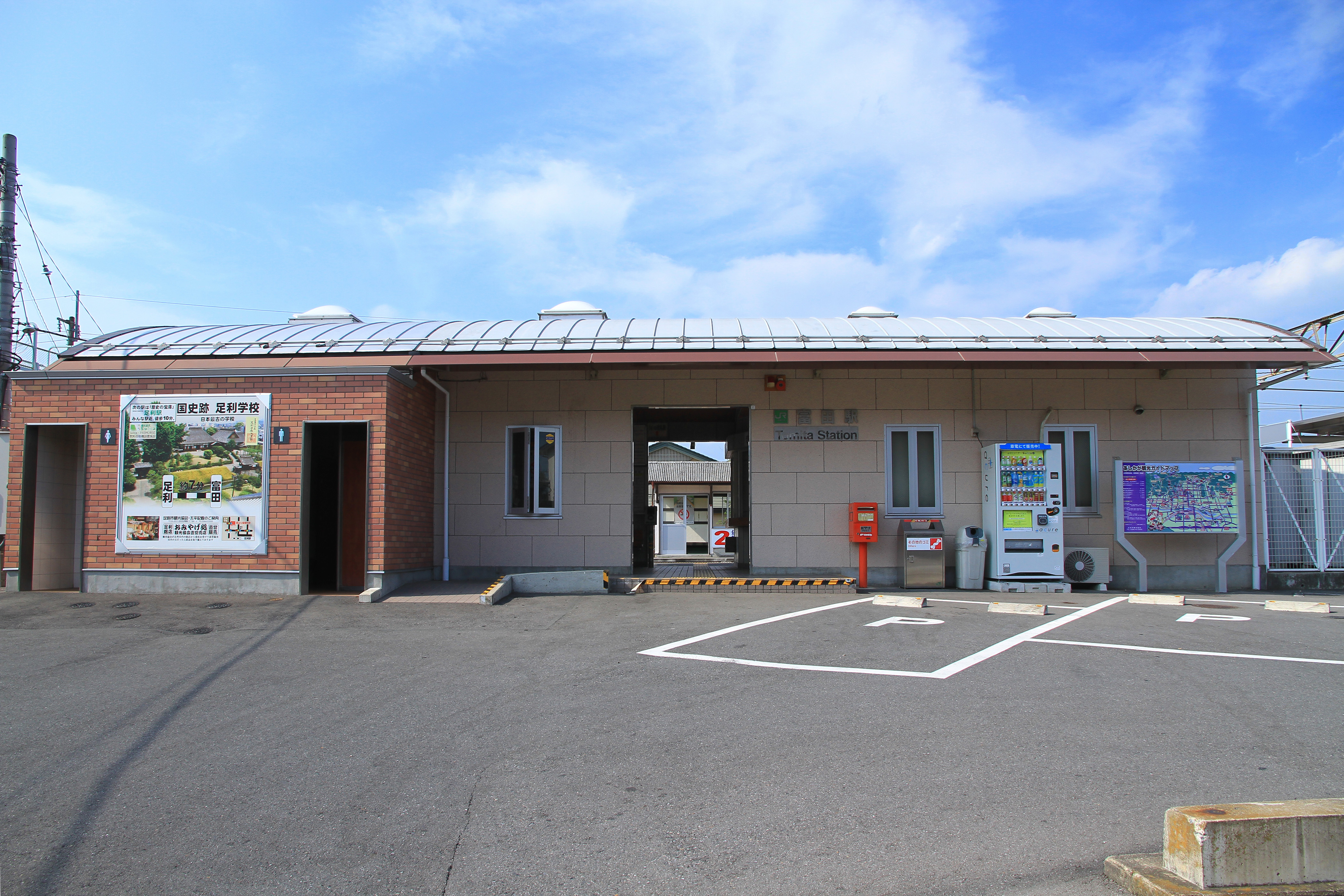 Tomita Station on the Ryomo Line in Tochigi Prefecture, Japan